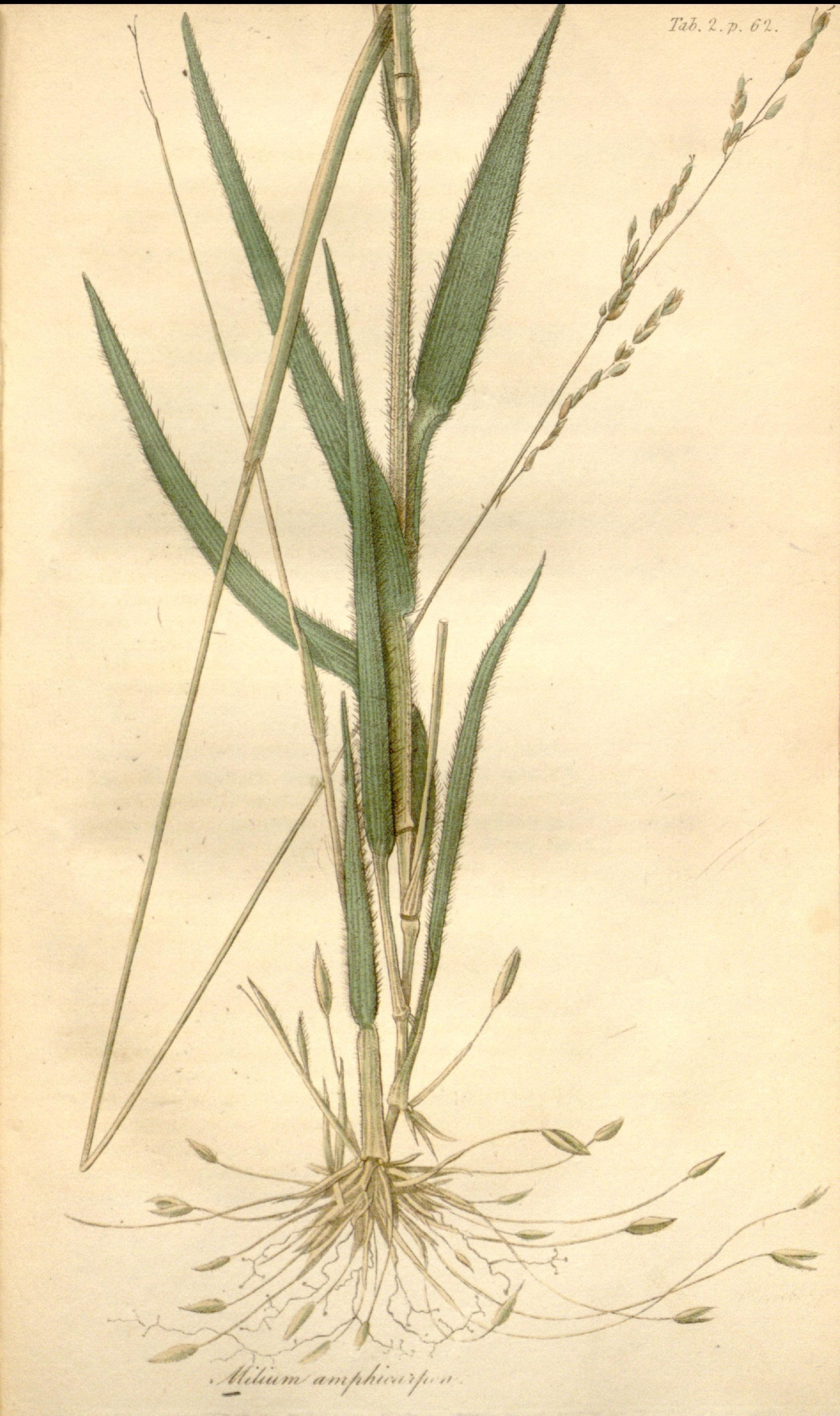 ^ TjJ.. 2. p. 61 ^ 4f///f. /// /// / '. ./